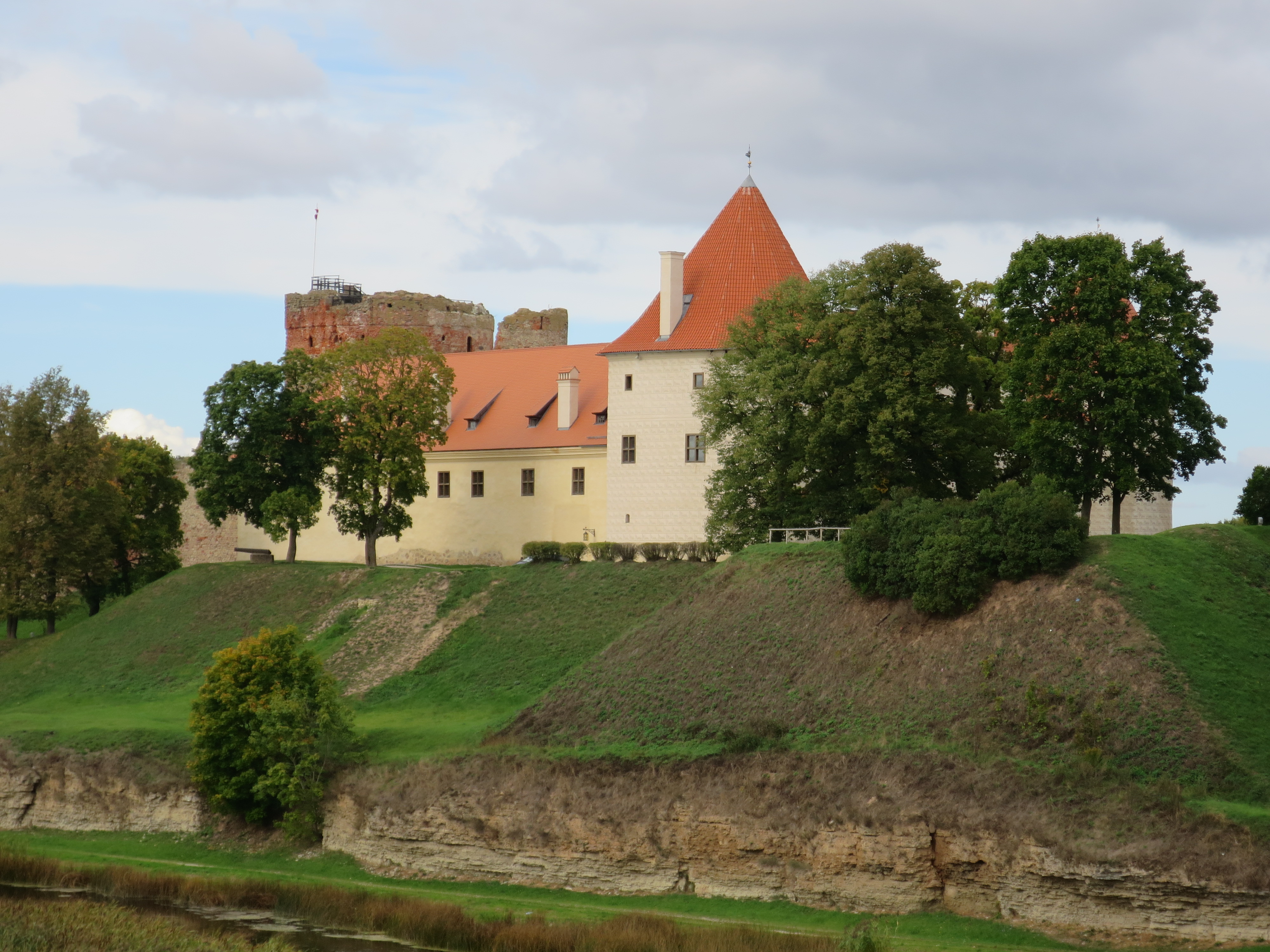 Medieval castle in Bauska (Latvia).